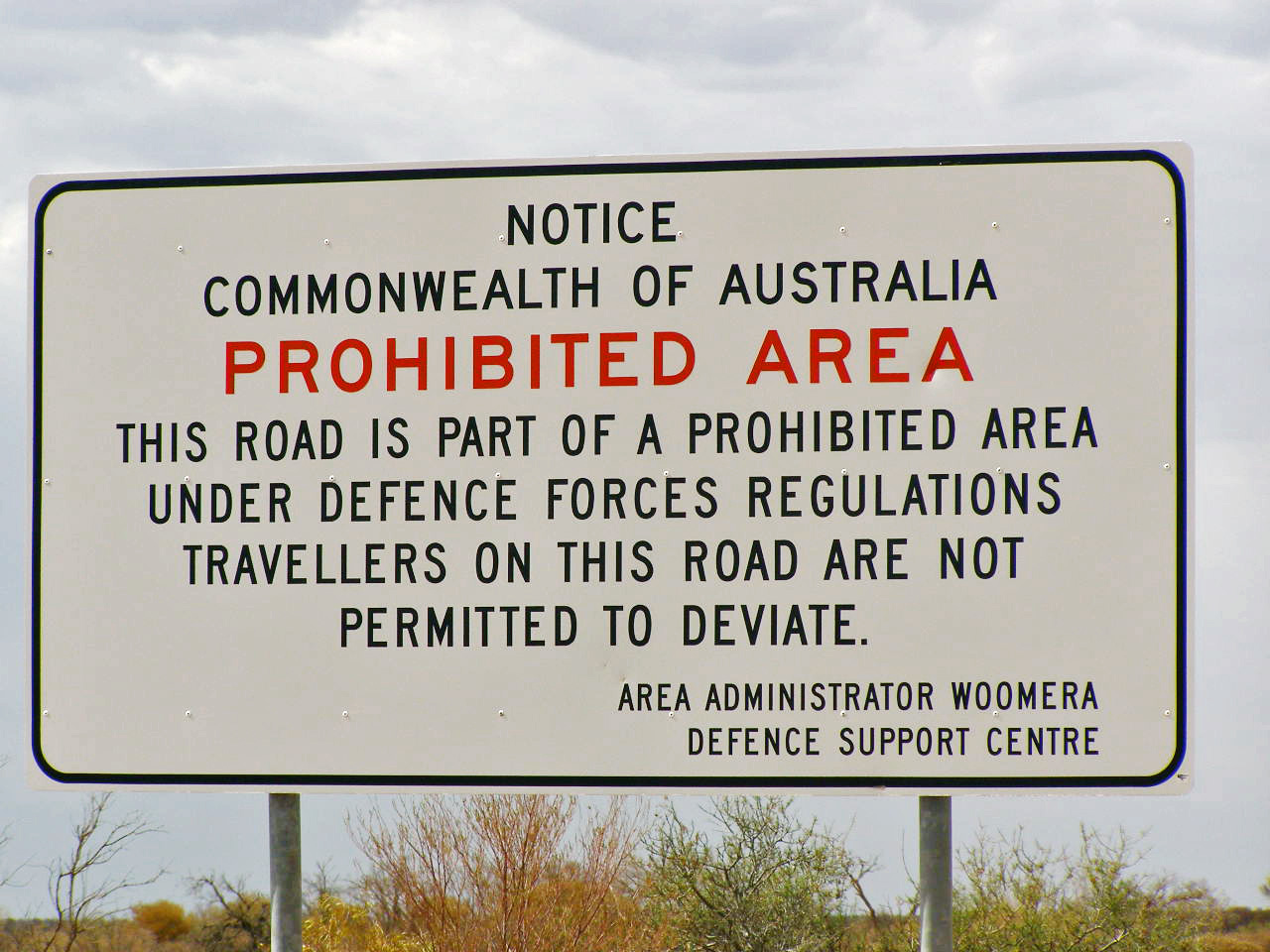 Warning sign on the Stuart Highway, which passes through the Woomera Prohibited Area, South Australia “ notice Commonwealth of Australia prohibited area This road is part of a prohibited area under defence forces regulations travellers on this road are not permitted to deviate. area administrator Woomera defence support centre ”